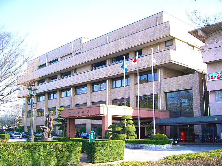 Nagareyama City Hall in Chiba Prefecture, Japan